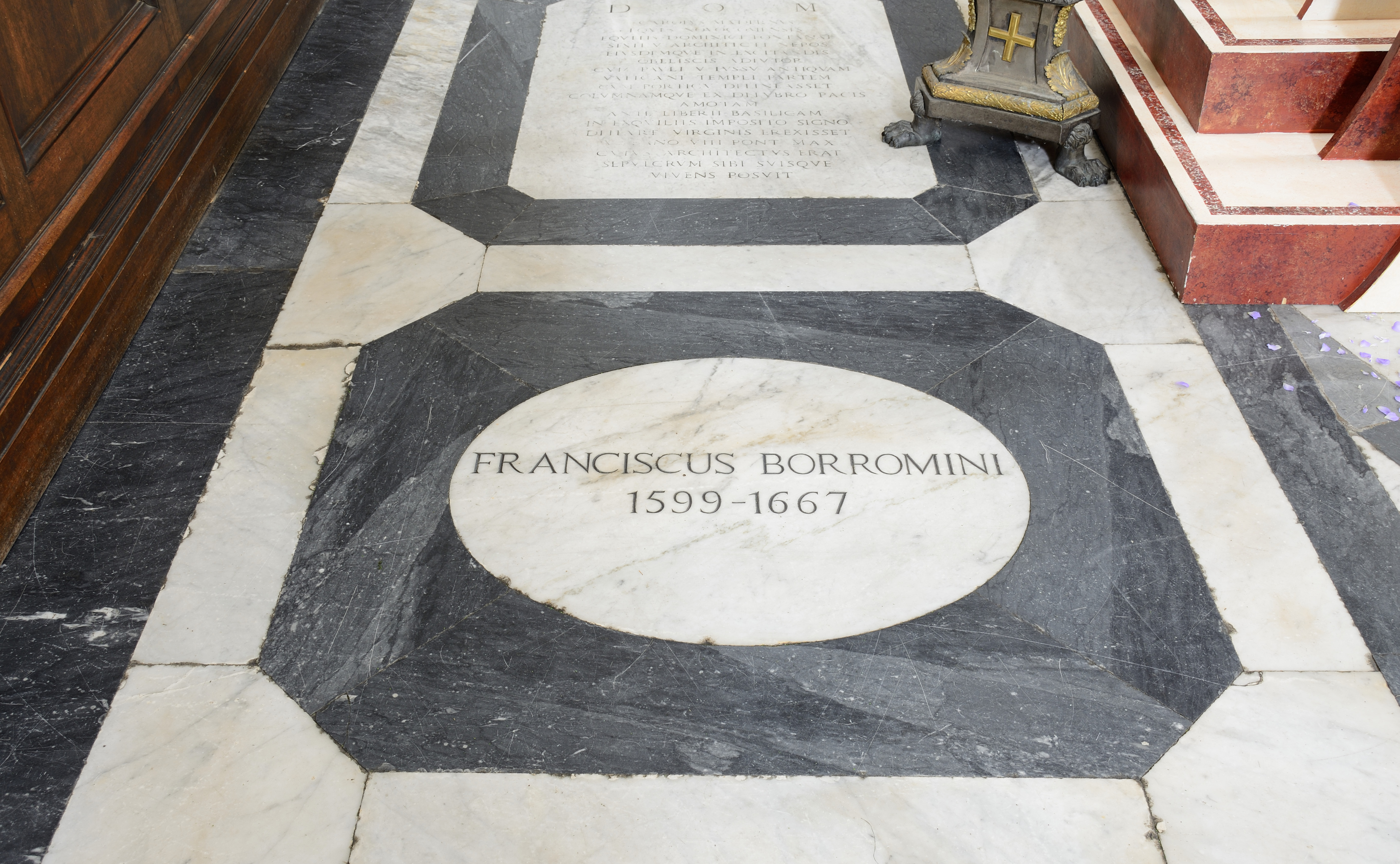 Francesco Borromini's Tomb